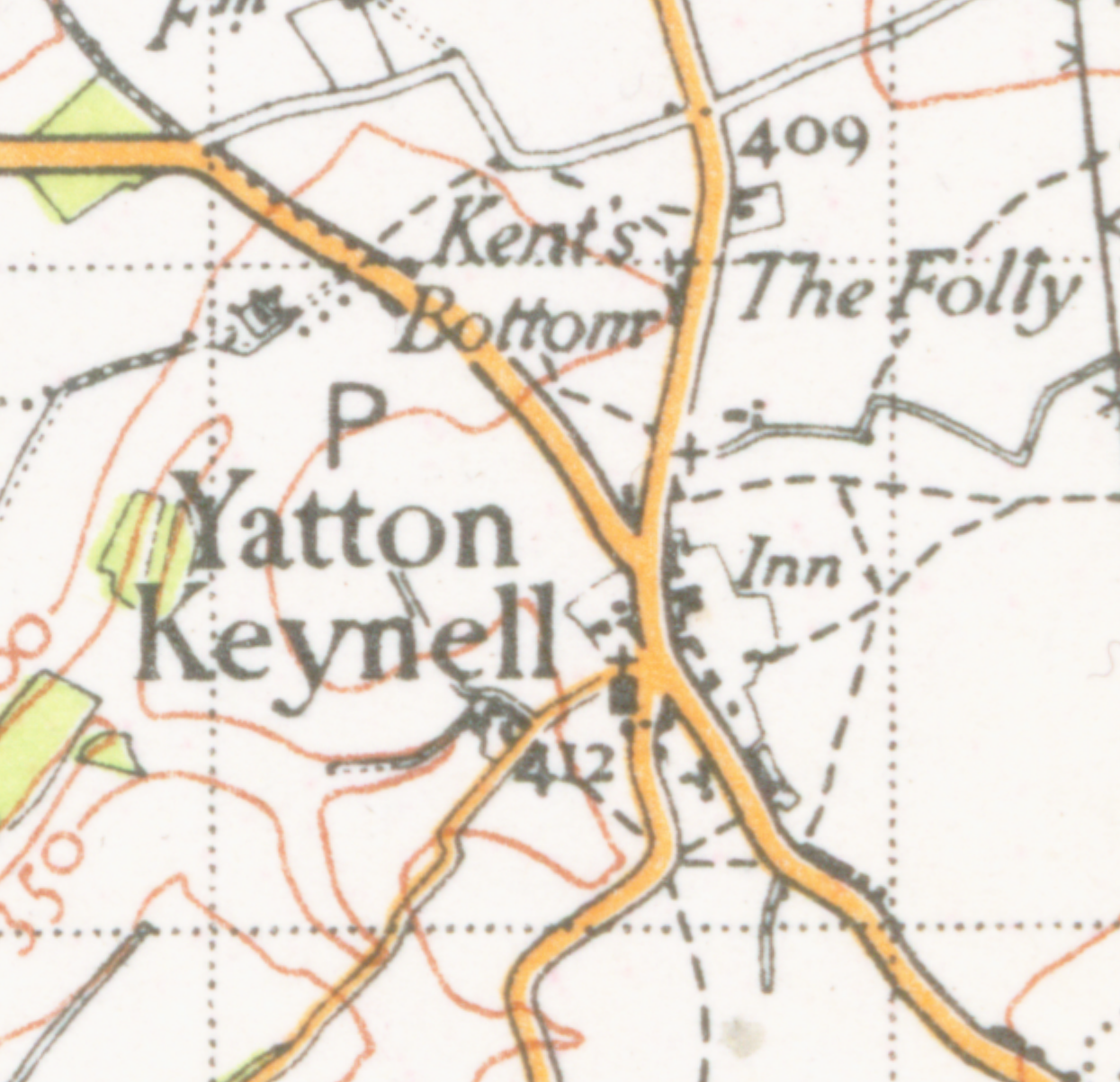 Map of Yatton Keynell from 1946. Scale 1 inch to the mile 1200DPI Sheet 156